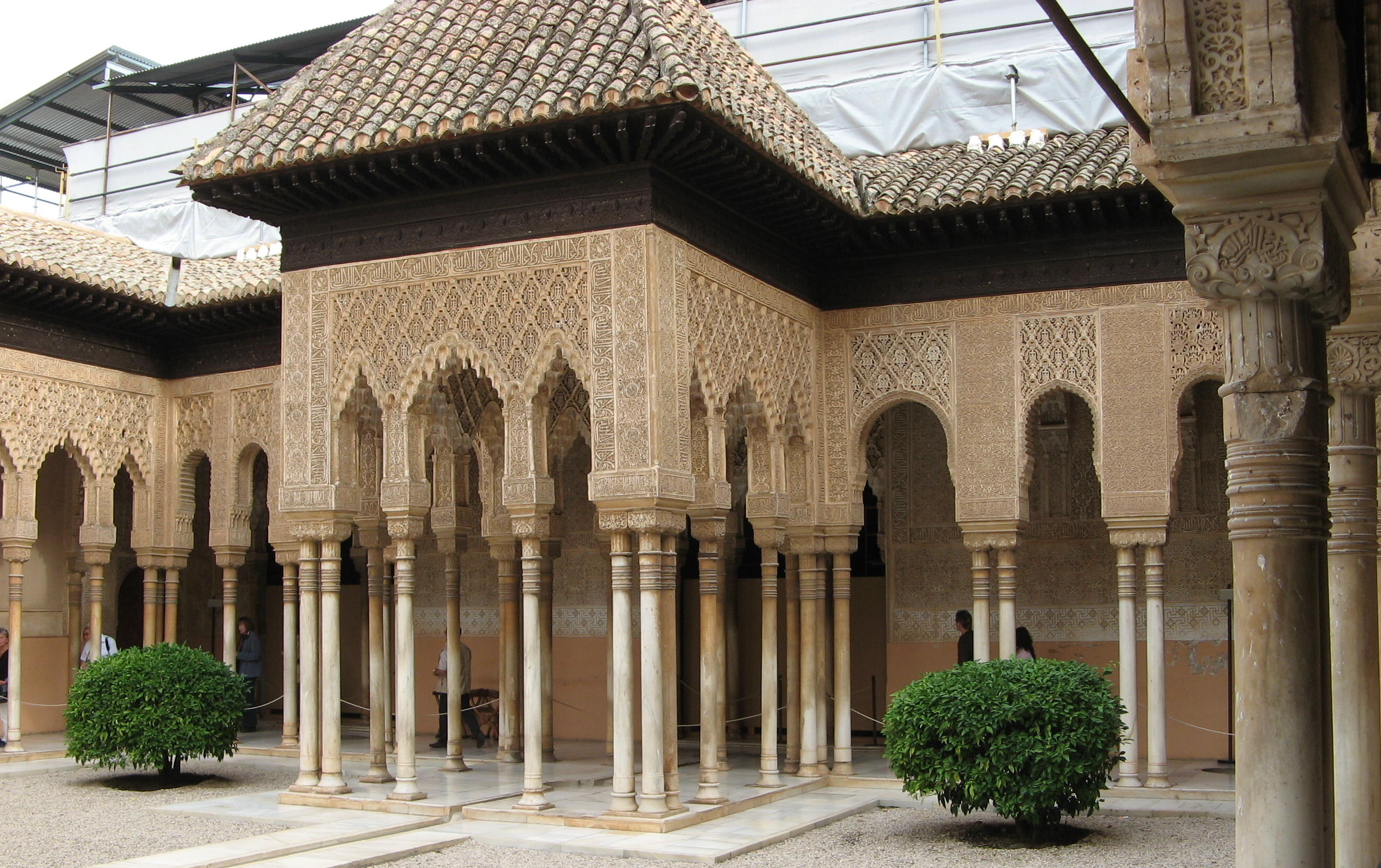 Patio de los Leones / Court of the Lions / Löwenhof (1394-1391)